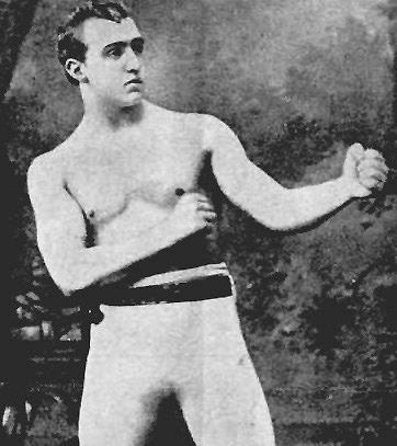 Charlie Mitchell, english boxer.